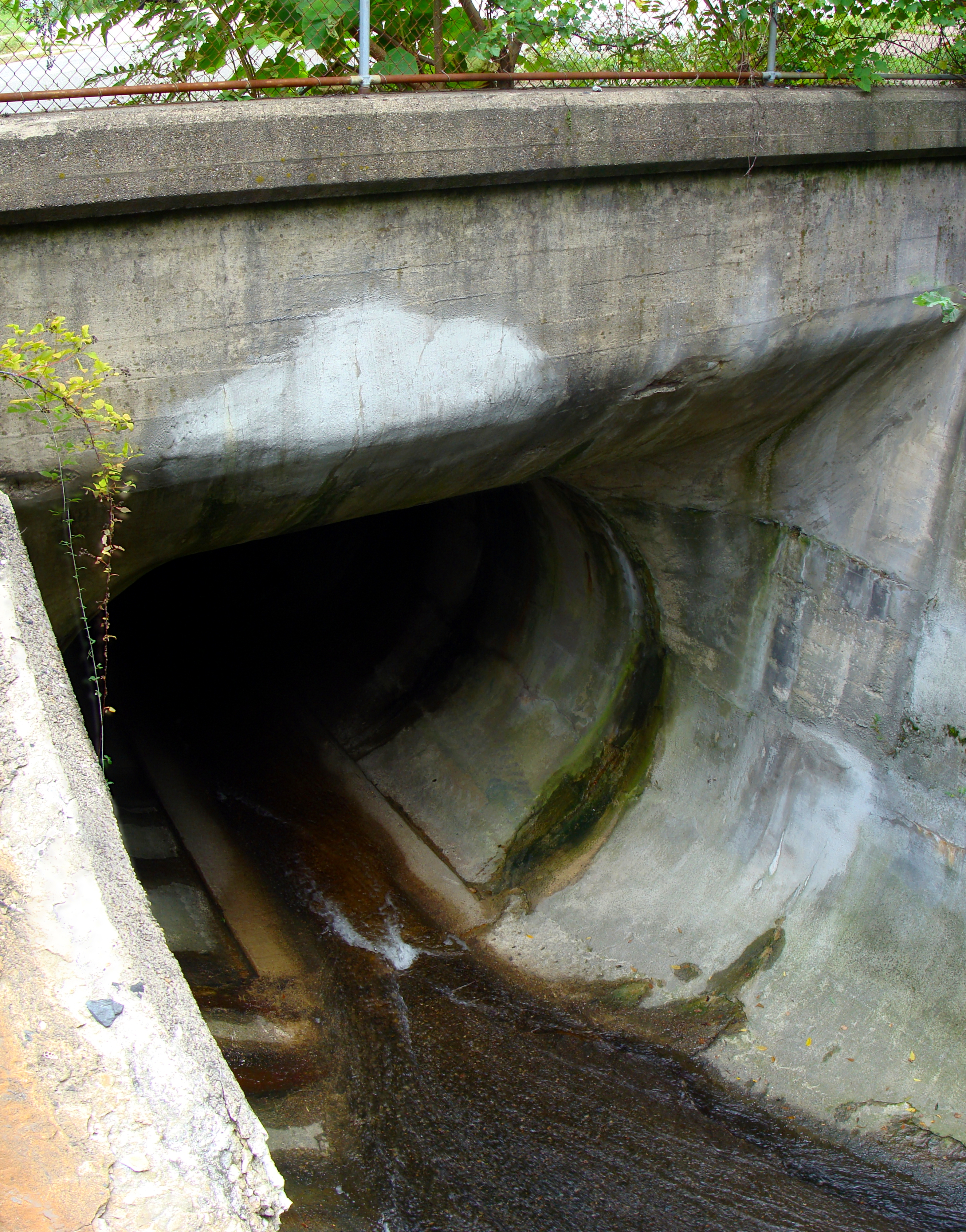 The entrance to the Tube on the Mill Creek, located at 30th Street, in Erie, Pennsylvania. Originally three horizontal photos. This panoramic image was created with Autostitch. Stitched images may differ from reality.